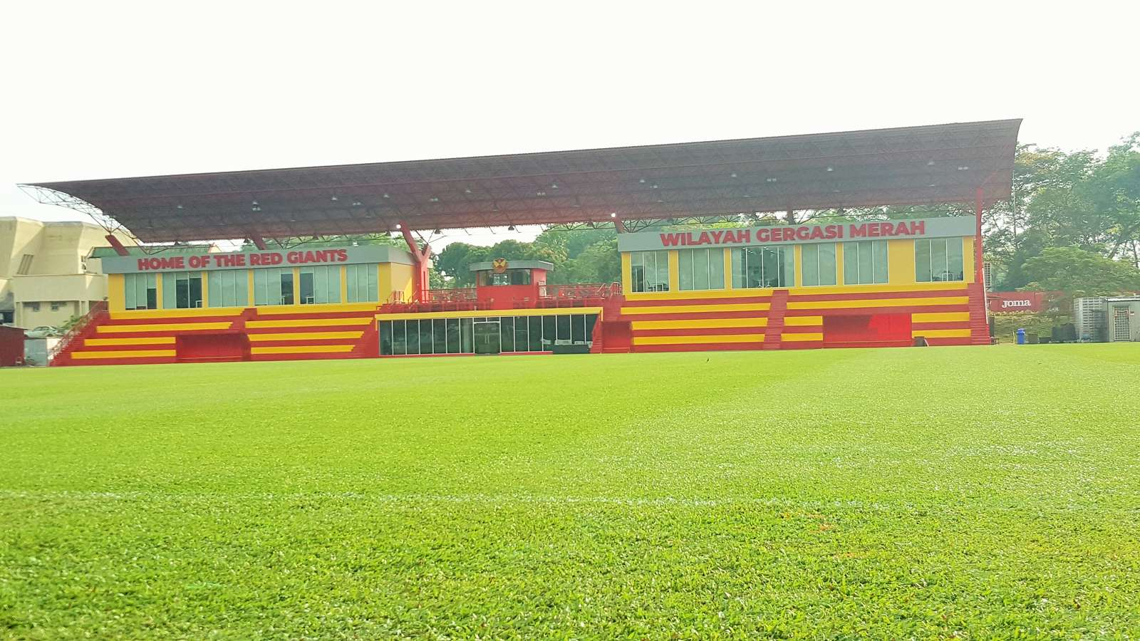 Selangor-football-training-centre.The view of the main building from between the two pitches